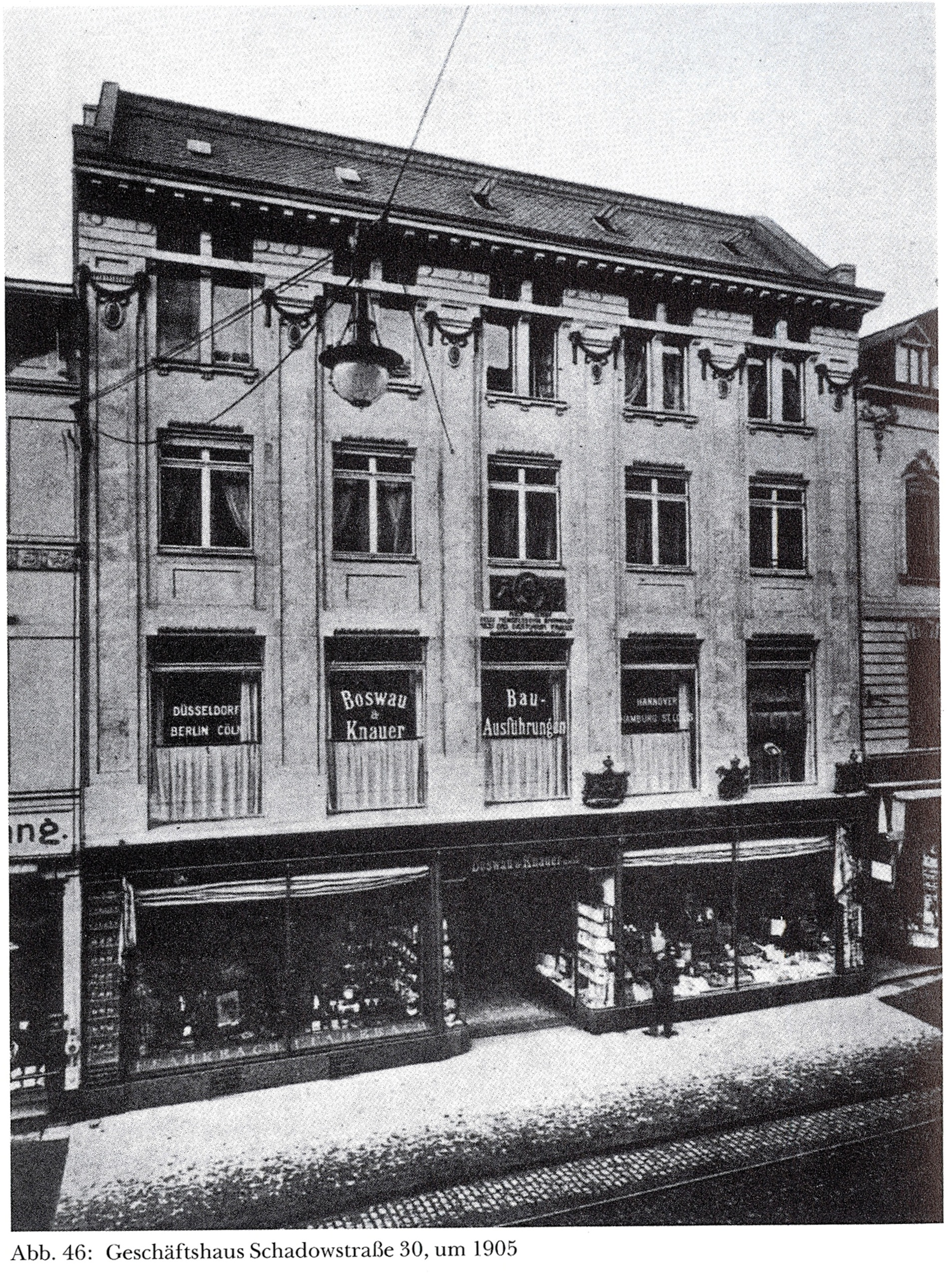 Düsseldorf, Geschäftshaus Schadowstraße 30, Mendelssohn-Haus, um 1905 (Peter Hüttenberger - Die Industrie- und Verwaltungsstadt (20. Jahrhundert) Düsseldorf. Band 3. Schwann, Düsseldorf 1990).jpg